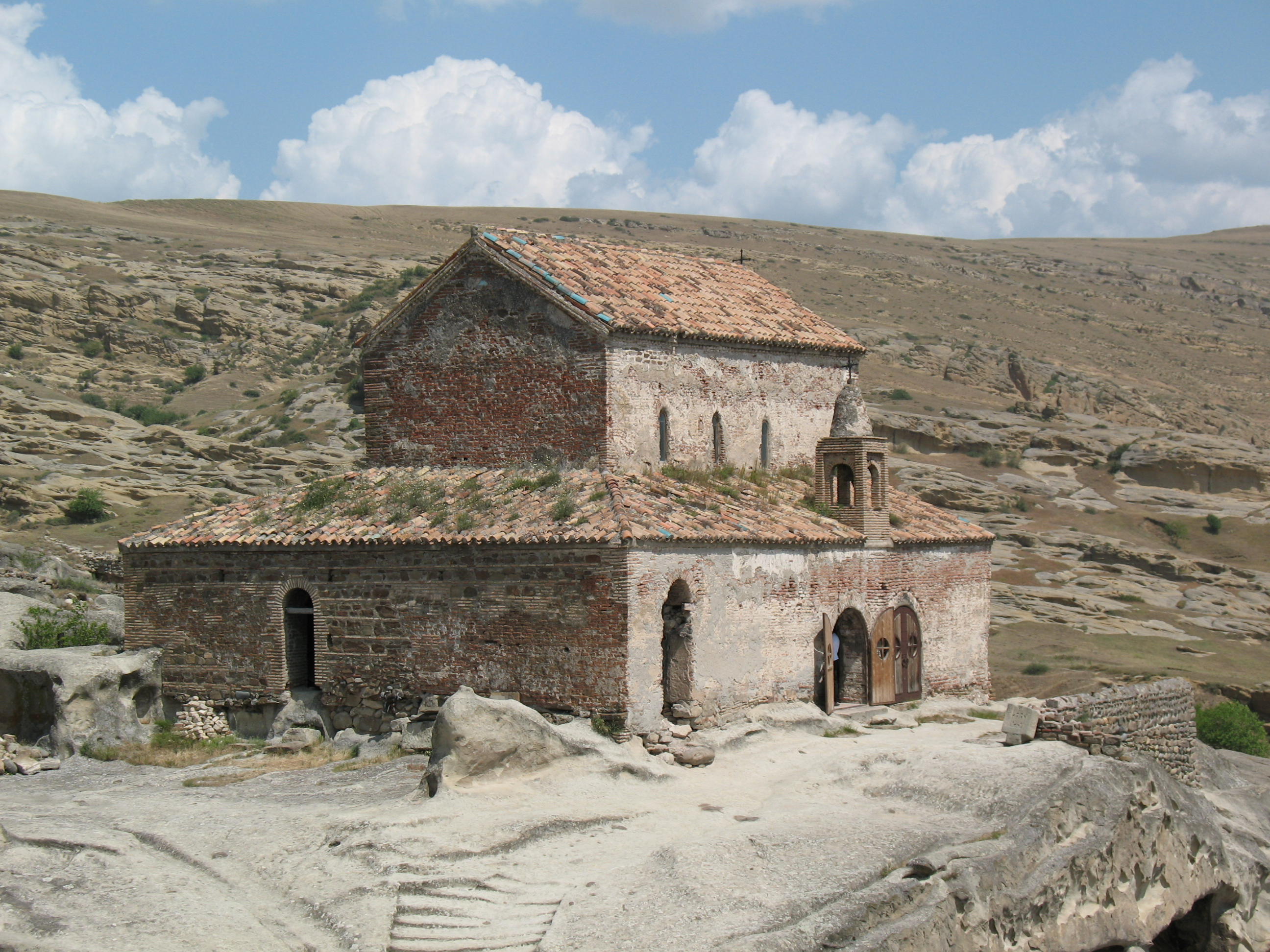 Uplistsikhe, a ruined rock-hewn city of ancient Georgia